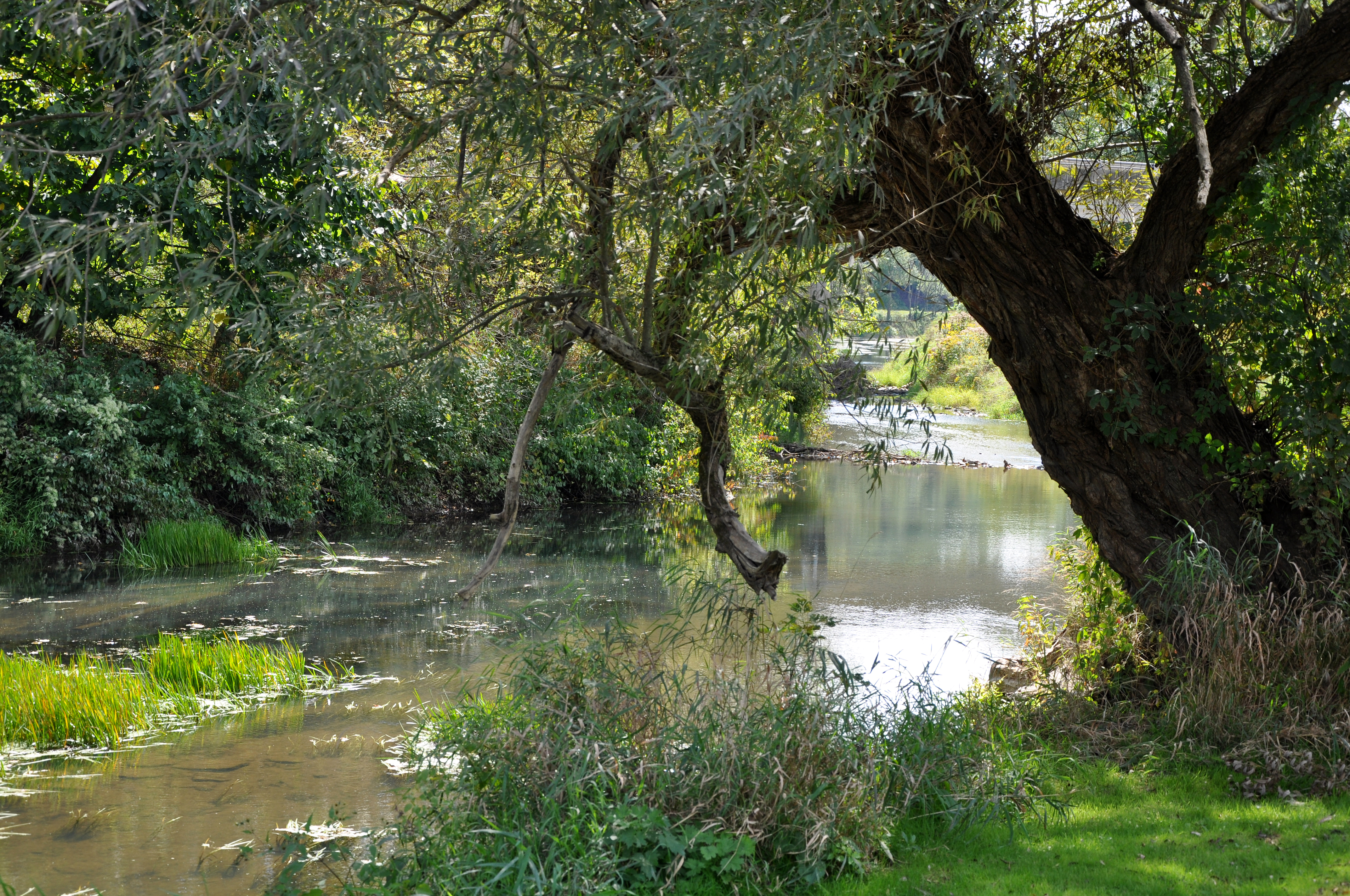 Looking downstream along Marsh Creek at Ansonia in the U.S. state of Pennsylvania. Marsh Creek is a tributary of Pine Creek, which it enters about 0.5 miles (1 km) further downstream.